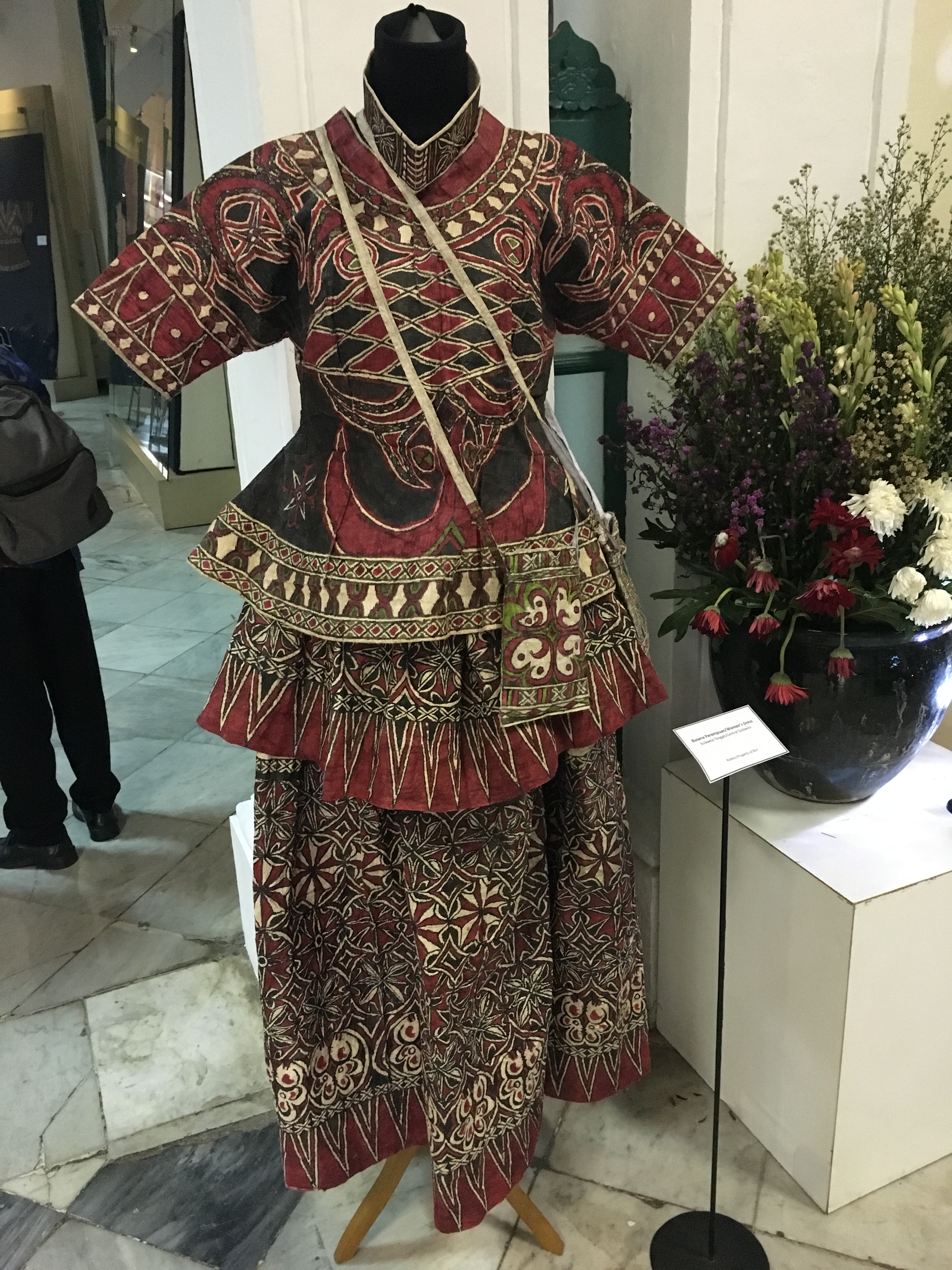 Barkcloth dress of Lore Bada people in Lore Valley, Poso Regency, Central Sulawesi, Indonesia. This collection of Central Sulawesi Museum was exhibited in Textile Museum Jakarta in November 2016.